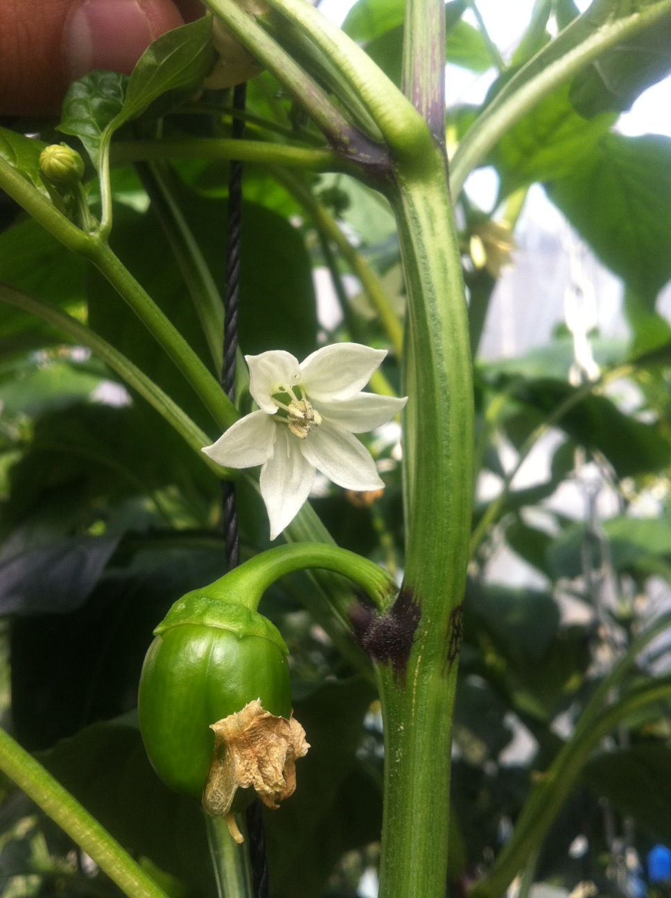 Greenhouse sweet pepper flower